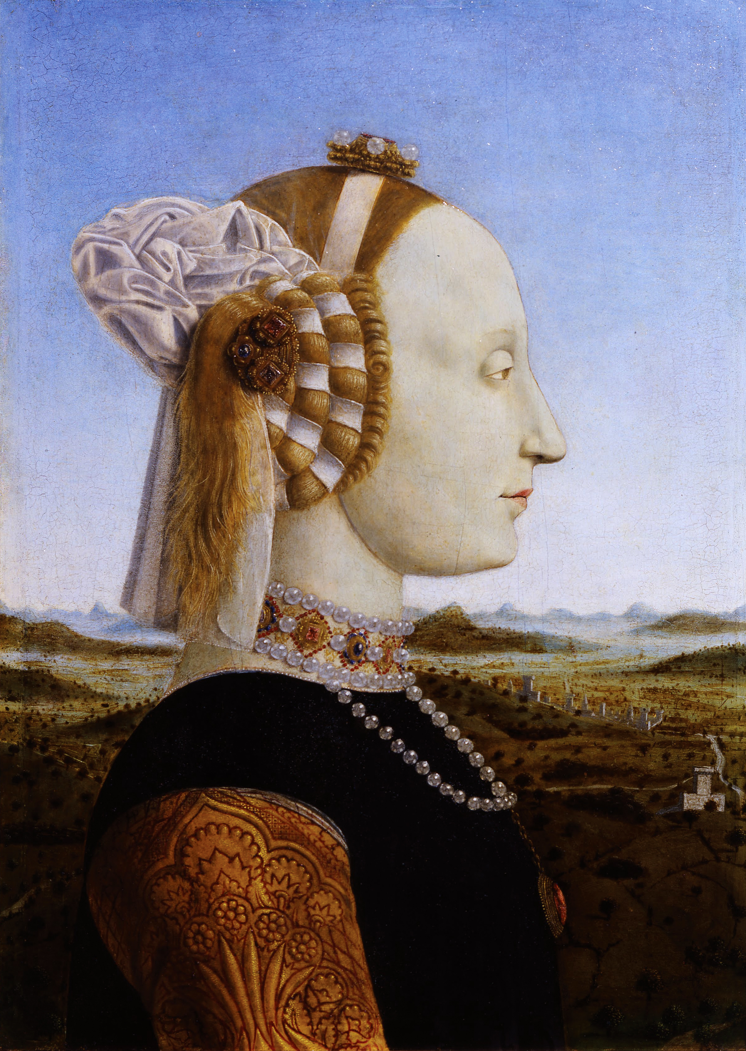 Duchess of Urbino, Wife of Federigo da Montefeltro